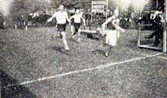 William Holland, winning the 400 m pre-race at the 1900 Olympic Games Photography, adapted reproduction, no restrictions on use